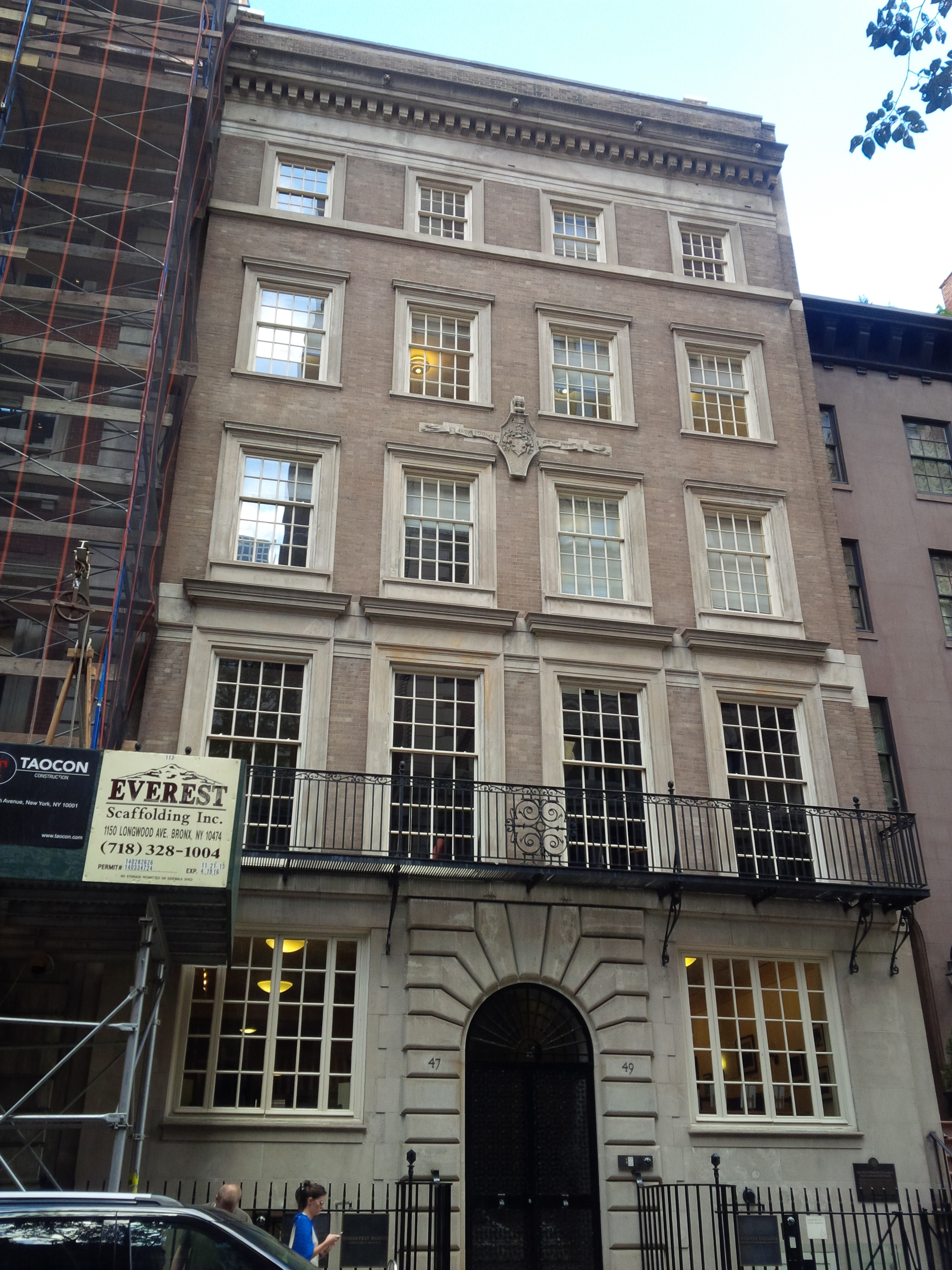 47-49 East 65th Street.